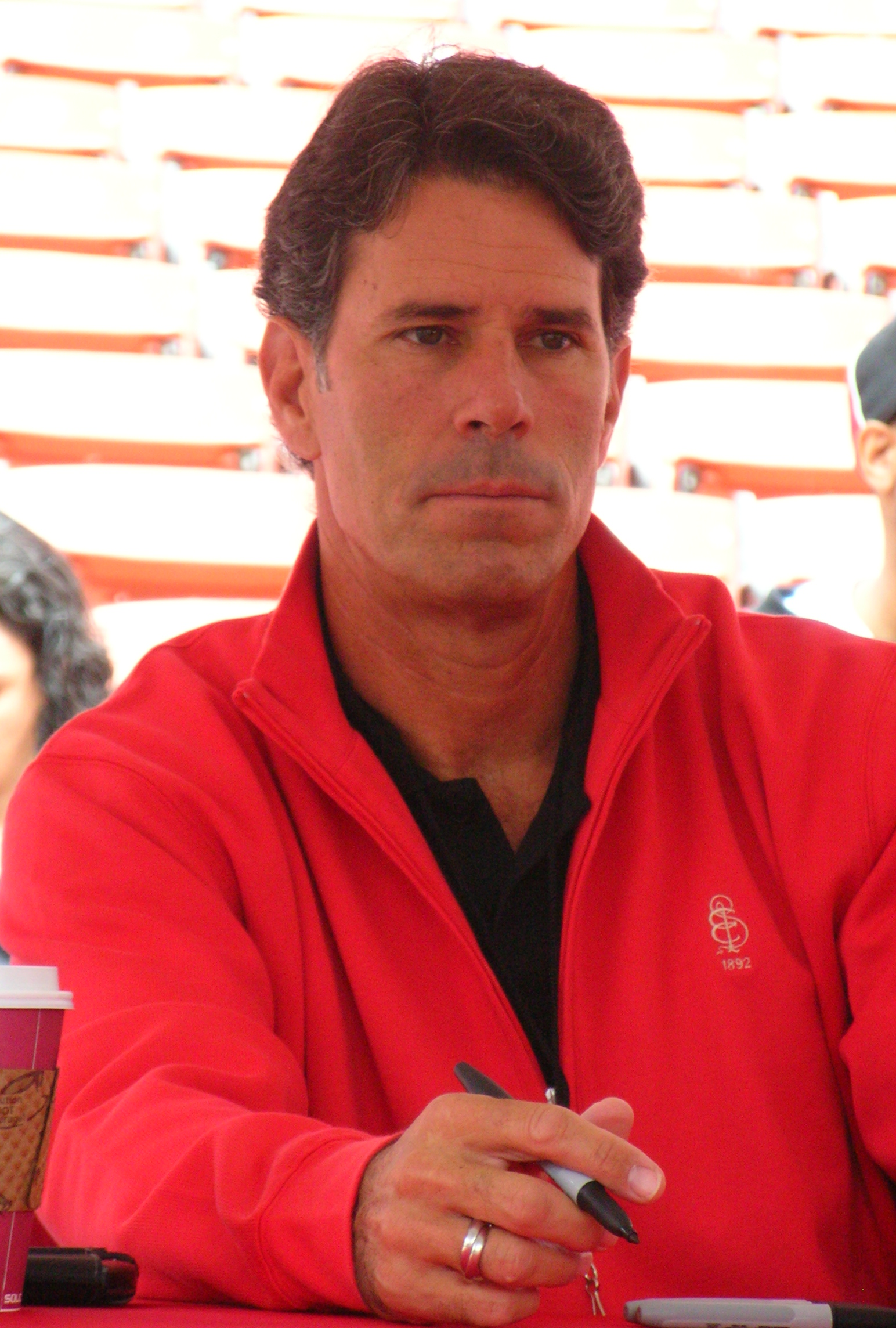 Former San Francisco 49ers quarterback Steve Bono at the San Francisco 49ers Family Day 2009 at Candlestick Park.